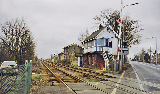 Littleworth Station (remains) View SW, towards Peterborough North; ex-Great Northern, Peterborough - Spalding - Boston - Grimsby line, which was closed 6/10/70 but reopened Peterborough - Spalding 7/6/71. This station closed 11/9/61 earlier (for goods on 15/6/64). The road is the A16.